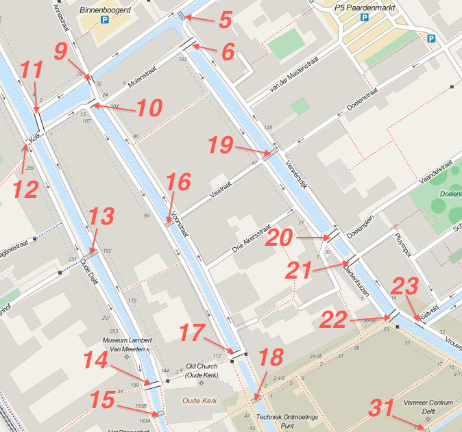 Map has bridges marked in the centre area of Delft. Map is based on Part 2 of 6.